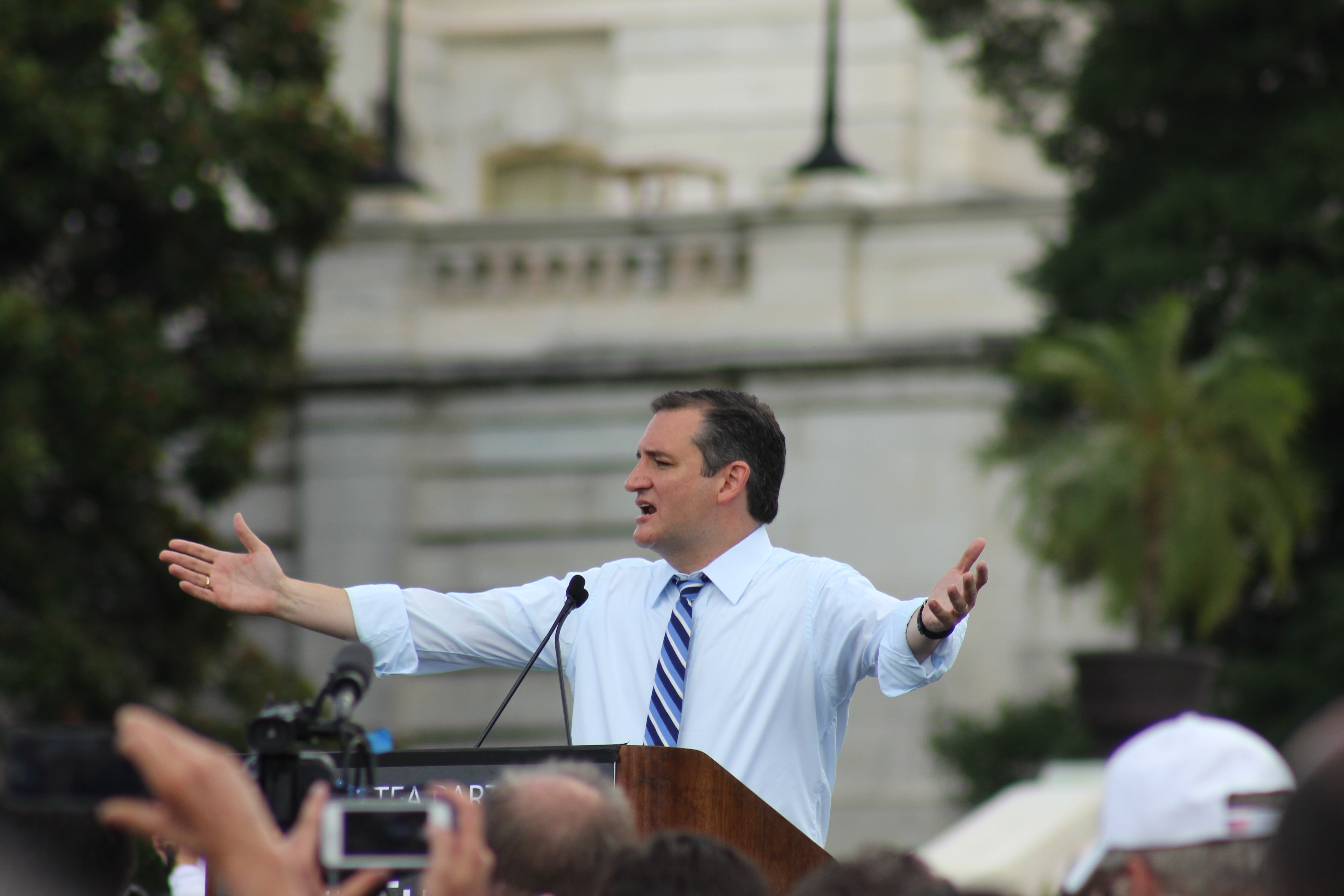 Tea Party Patriots STOP THE IRAN NUCLEAR DEAL RALLY on the US Capitol West Lawn in Washington DC on Wednesday morning, 9 September 2015 by Elvert Barnes Protest Photography